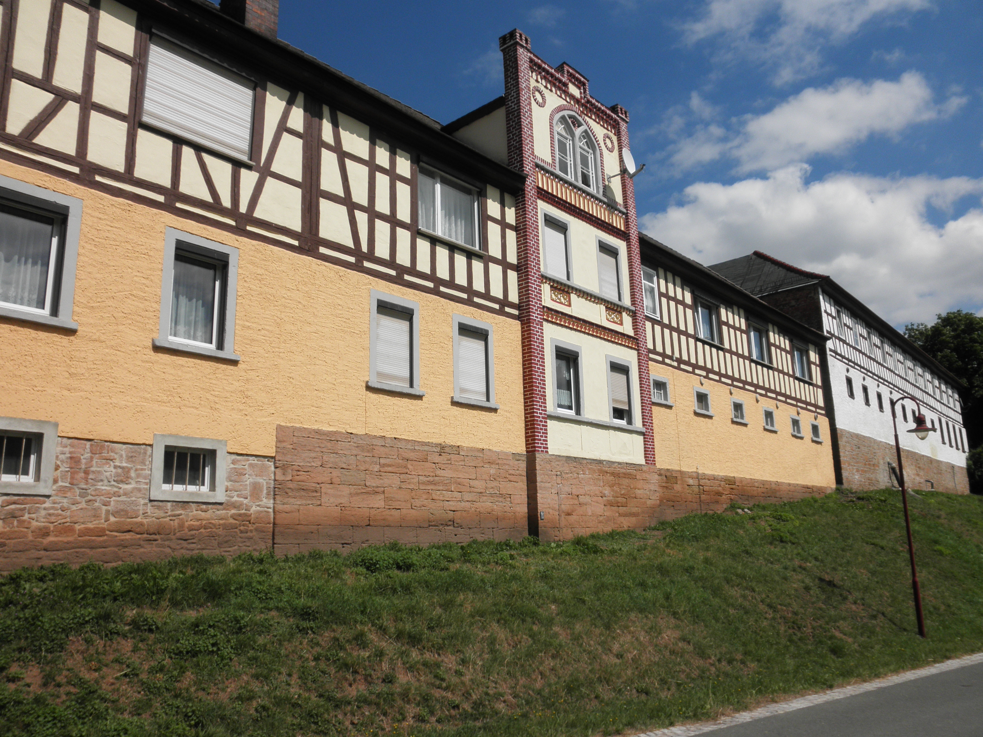 Halftimbered Houses in Pillingsdorf in Thuringia